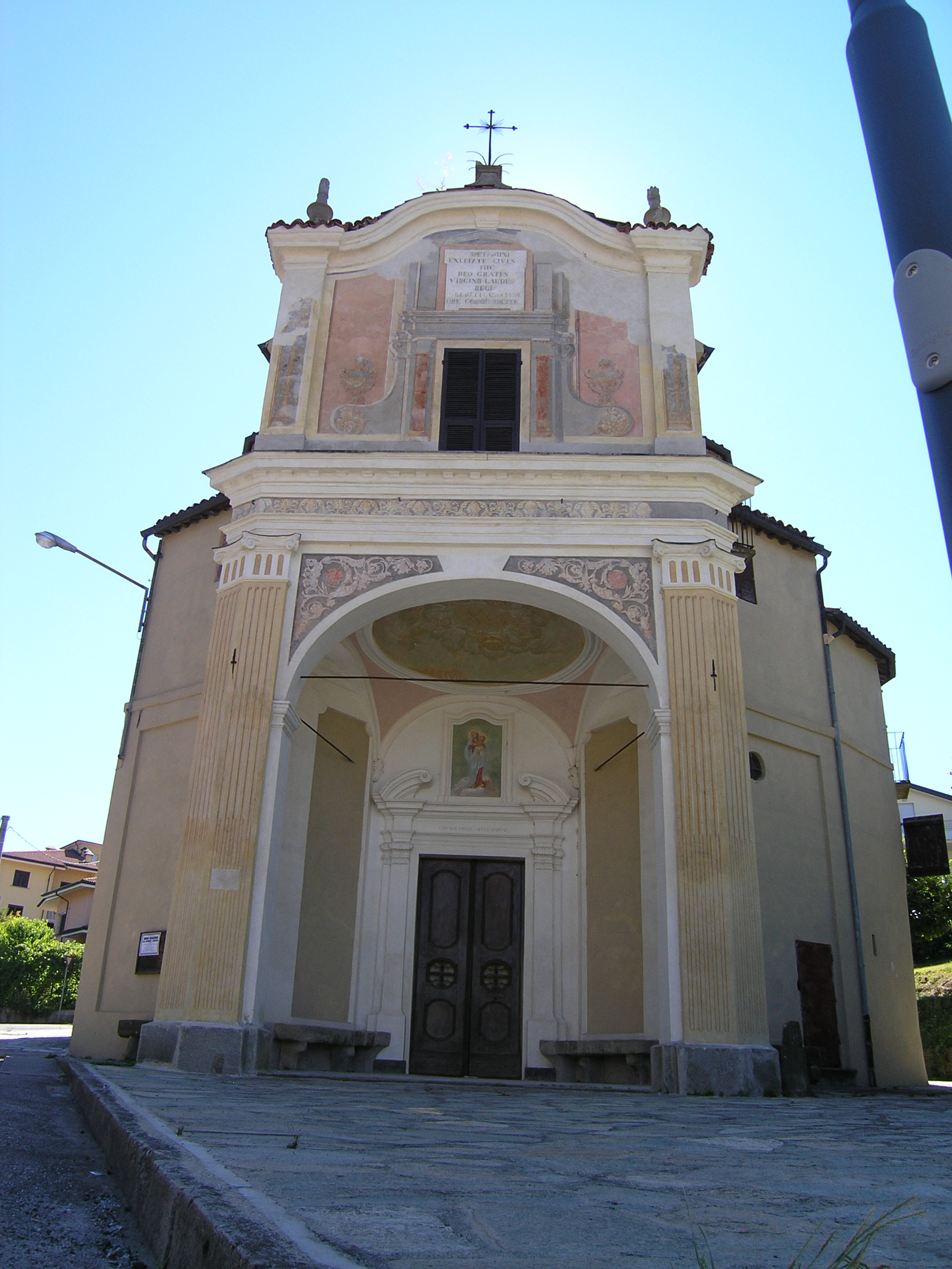 Church of Mary Consoled, Ceva (Italy)